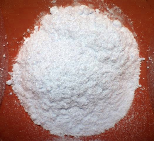 A pile of Borax based washing detergent.